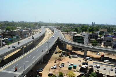 A Flyover, an interchange